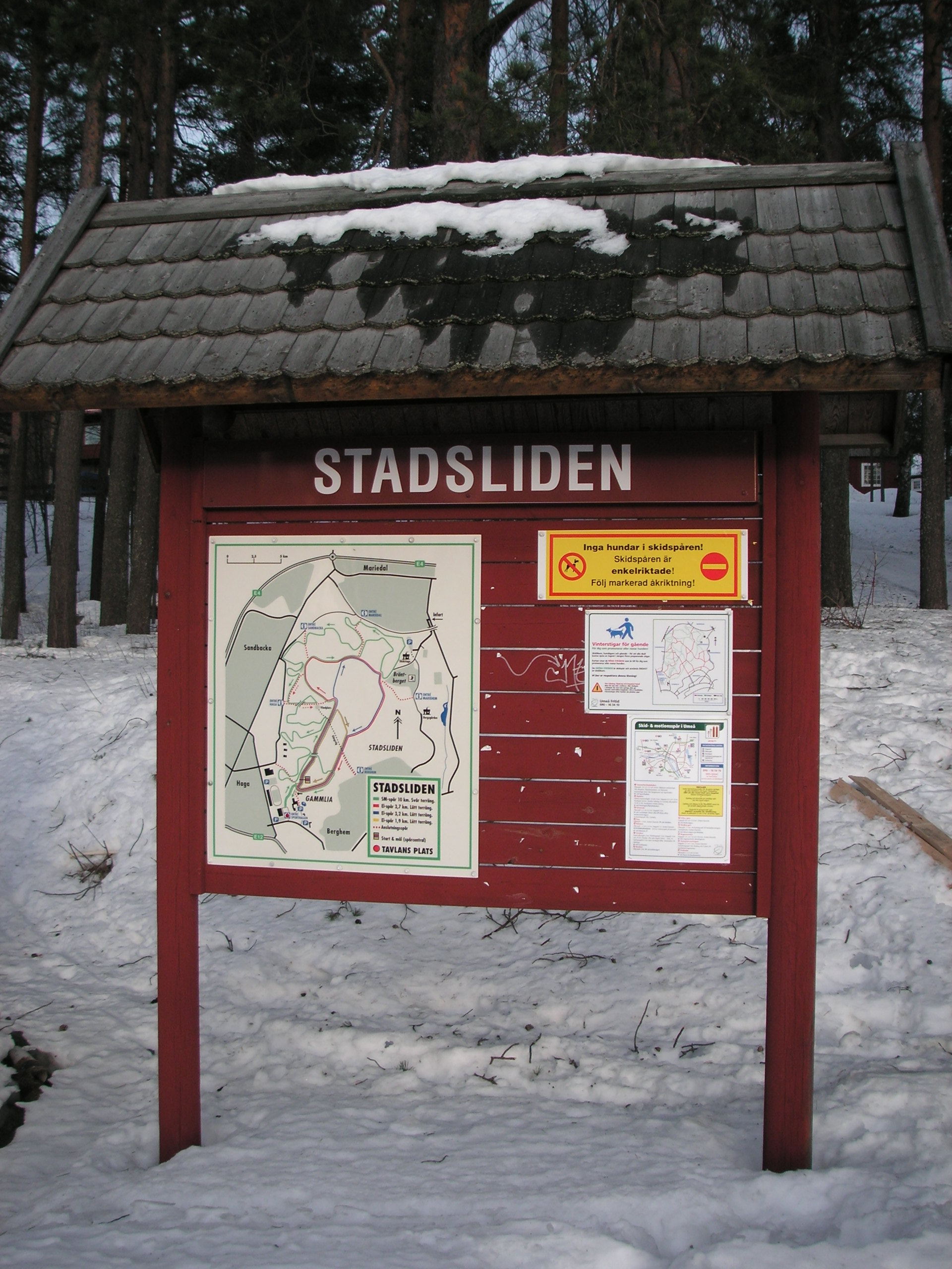 Information board on "Stadsliden" park in Umeå, Sweden.